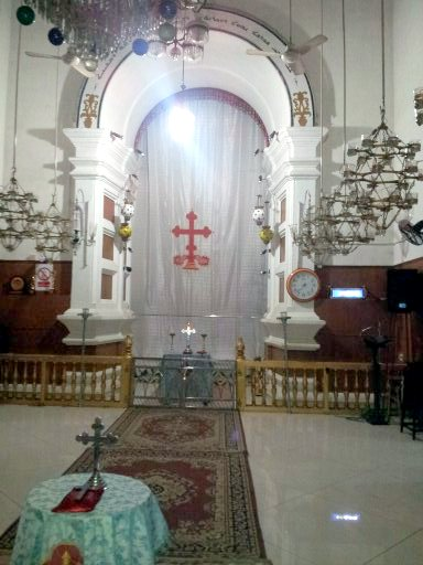 Inside view of Marthmariam big church